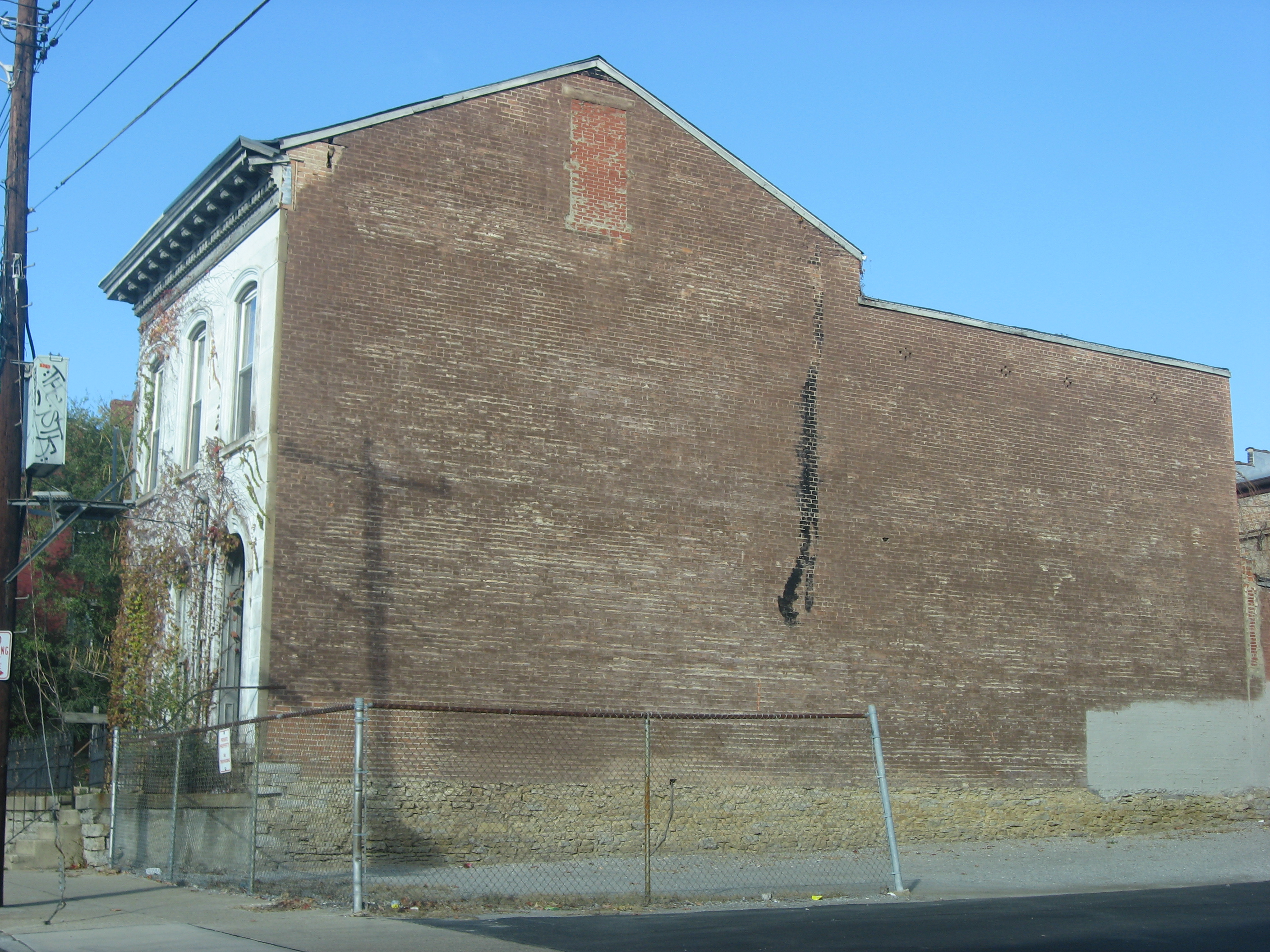 Side of the house at 512 York Street in the West End of Cincinnati, Ohio, United States. The empty lot on the near side of this 1865 house was once occupied by the Heinrich A. Rattermann House, which sat at 510 York Street. Built in 1860, the Rattermann House was listed on the National Register of Historic Places in 1980; it remains on the Register, even though it has been destroyed.